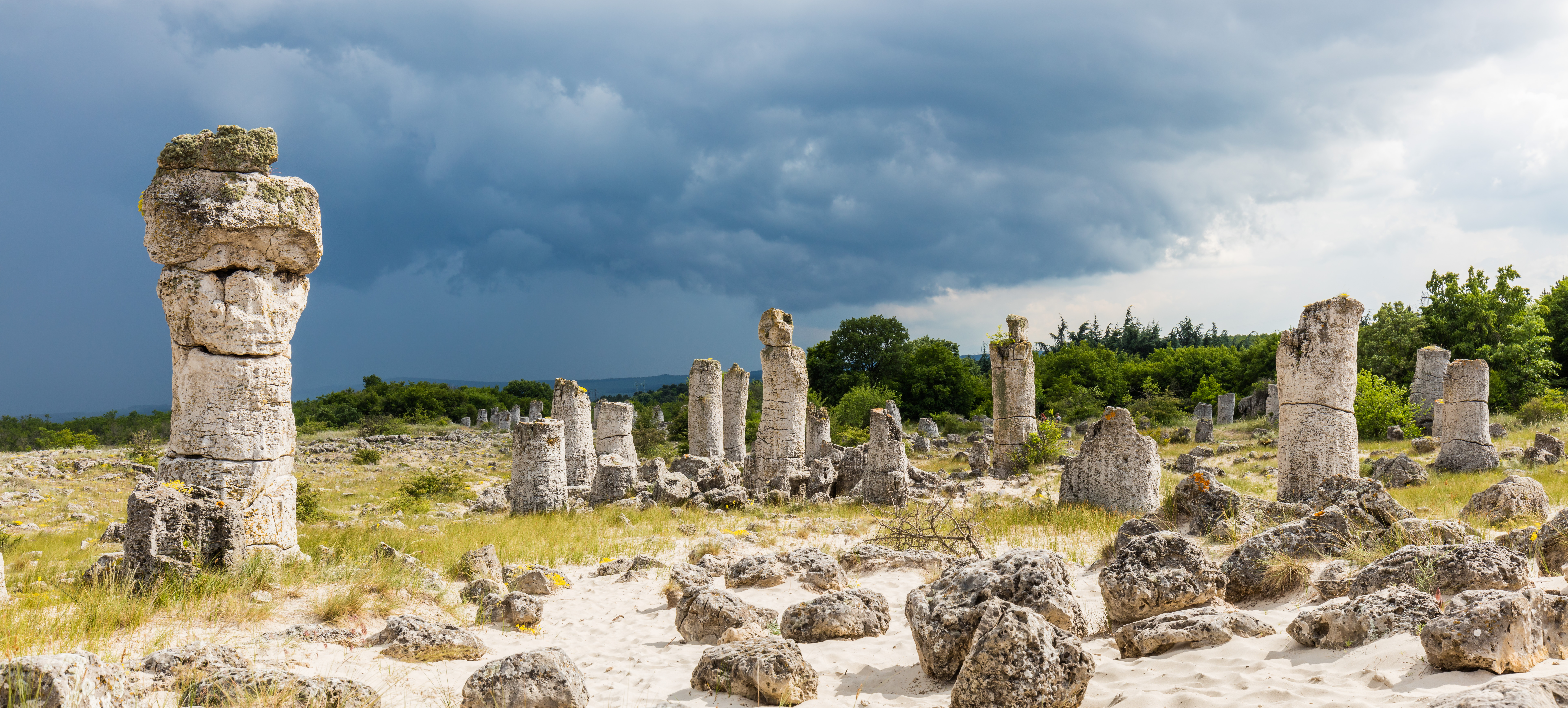 Pobiti Kamani, Varna province, Bulgaria. Pobiti Kamani is considered the only desert in Bulgaria and one of few found in Europe and is a natural landmark in Bulgaria since the 1930s. The desert consists of sand dunes and several groups of natural rock formations on a total area of 13 square kilometres (5.0 sq mi). The formations are mainly stone columns between 5–7 metres (16–23 ft) high and from 0.3–3 metres (0.98–9.84 ft) thick. There are a number of theories regarding the phenomenon's origin. The pioneering hypothesis can be divided roughly into two groups: suggesting an organic (coral activity) or abiotic (prismatic weathering and desertification of the rocks, formation of sand and limestone concretions, or lower Eocene bubbling reefs) origin.